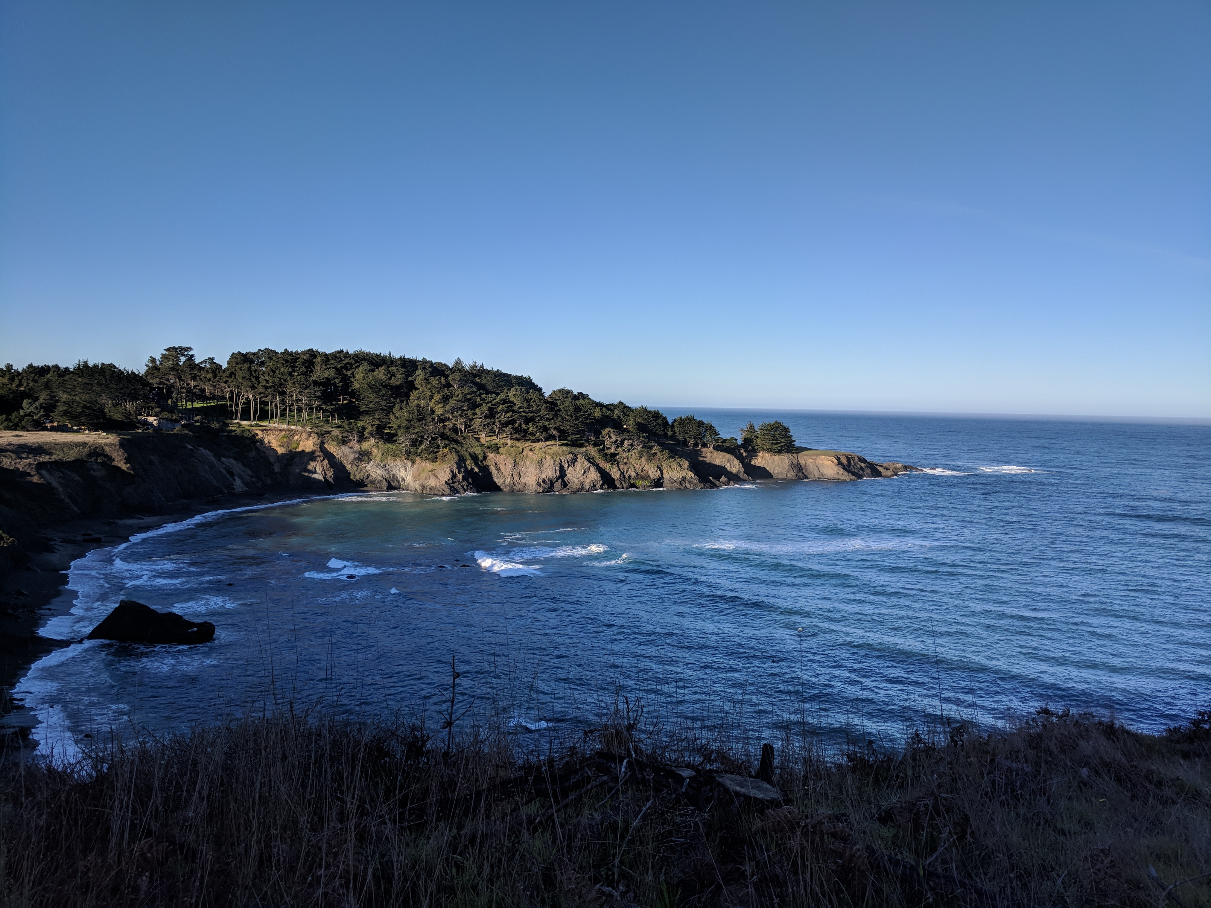 Picture of Mendocino Grove in California